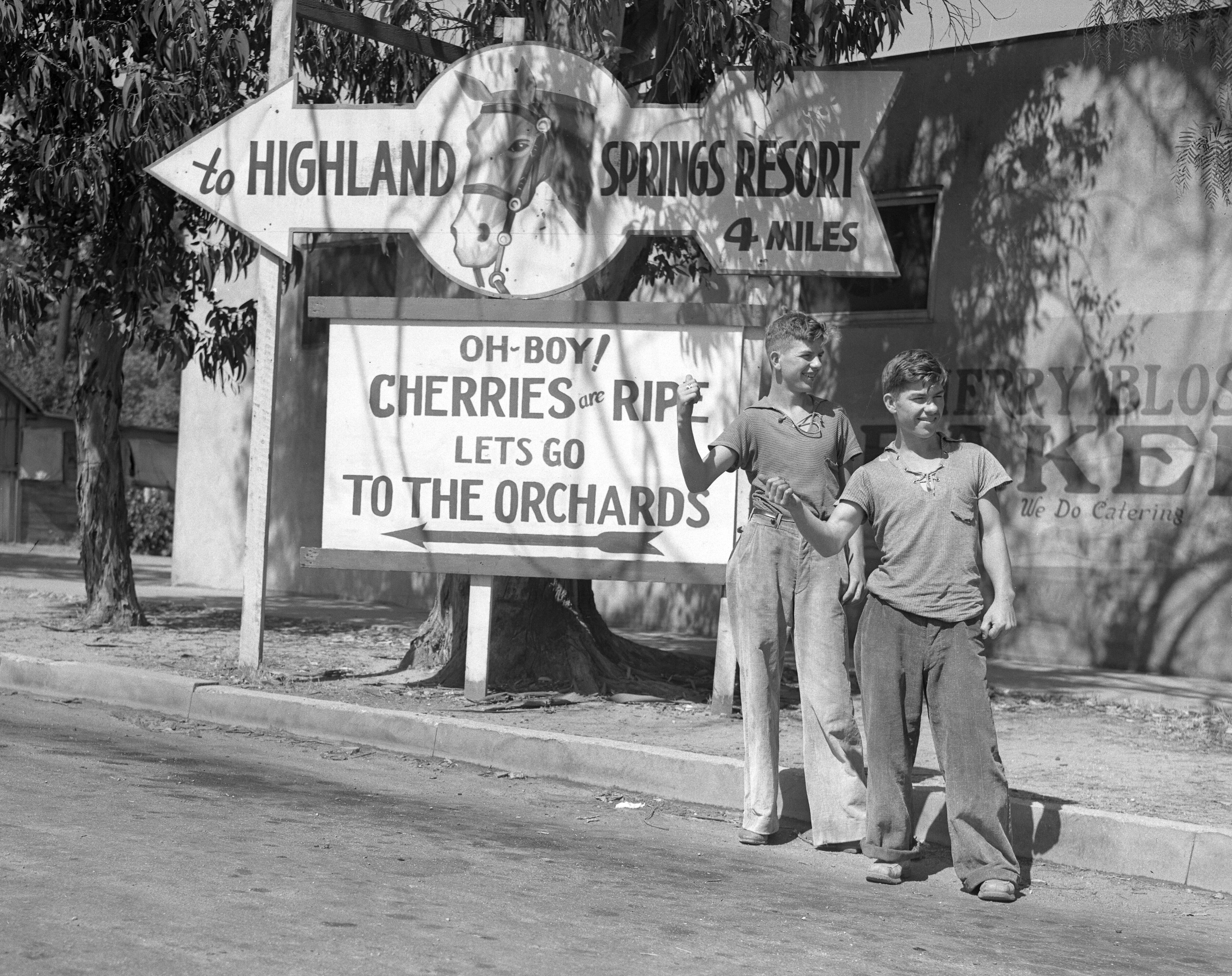 Title: Two WPA workers hitchhiking besides Highland Springs Resort and cherry orchards billboard, circa 1939